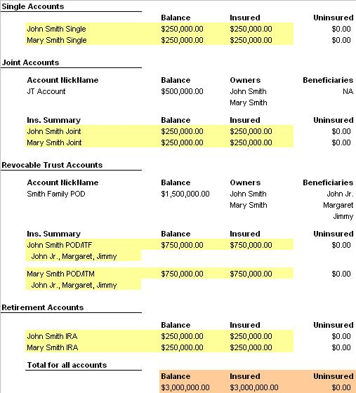 Image Demonstrating FDIC insurance coverage for Jumbo CDs.